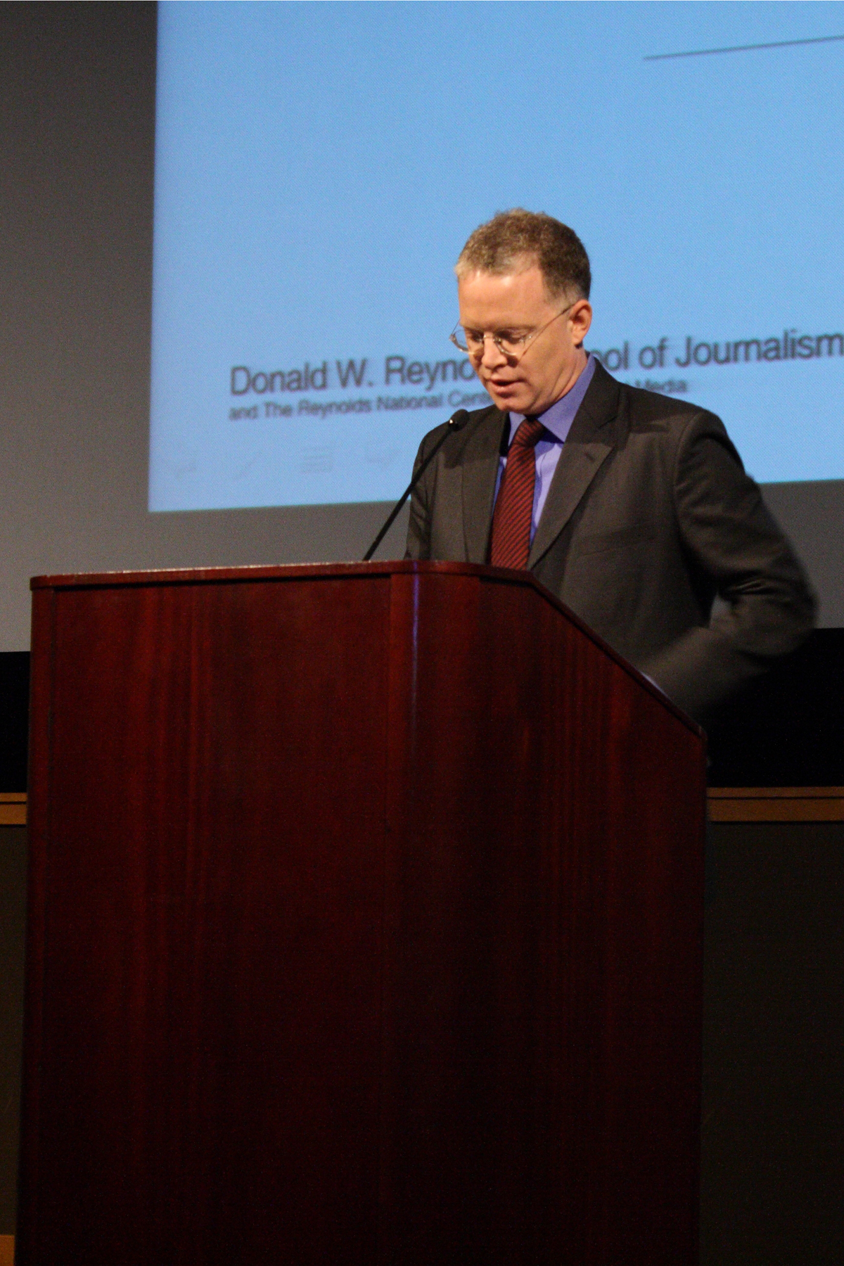 David Rohde, taking during a speech at the University of Nevada, Reno.